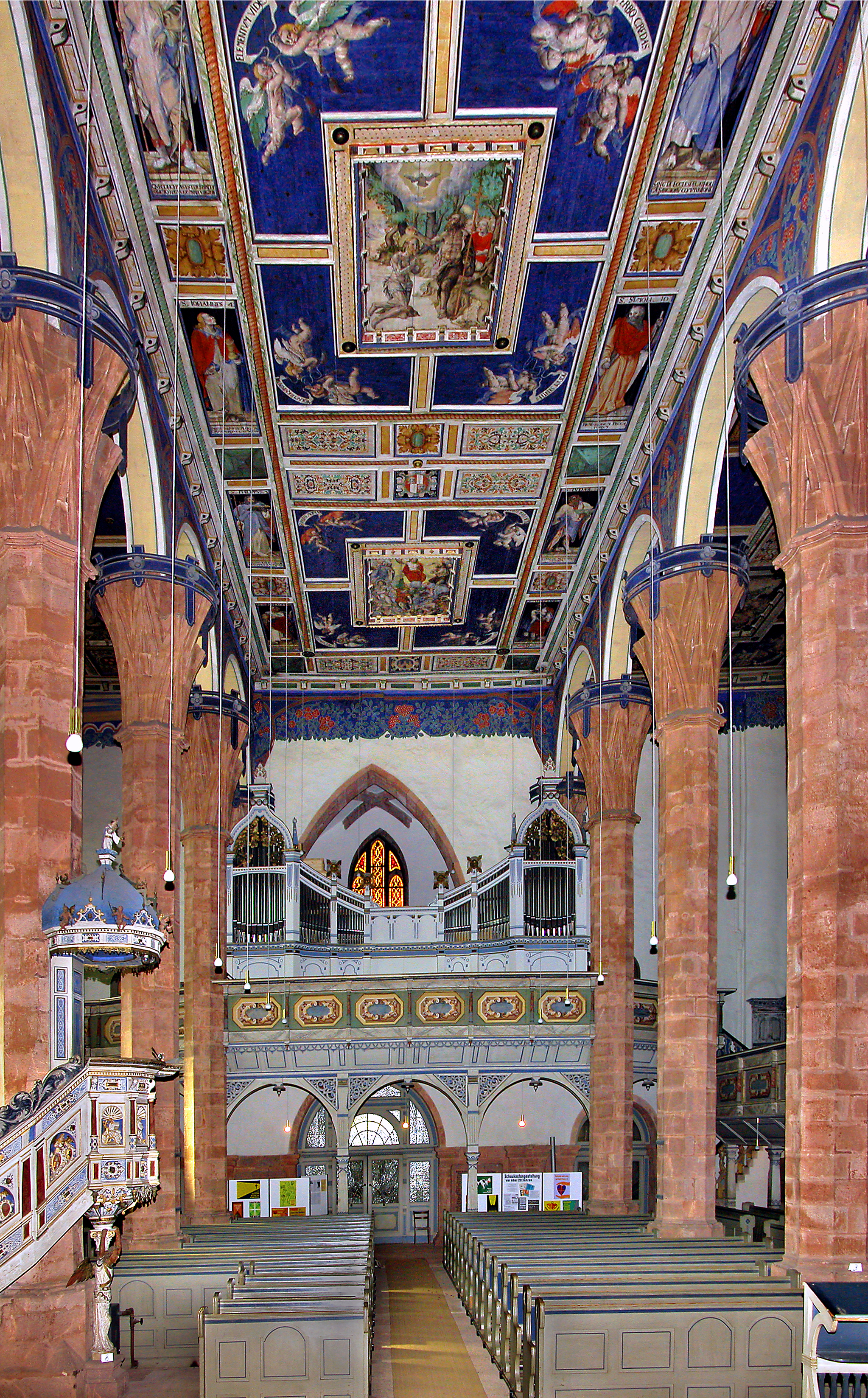 01.09.2009 04643 Geithain: St. Nikolaikirche (GMP: 51.054307,12.689032). Dreischiffiges spätgotisches Hallen-Langhaus (1504 begonnen) mit bemalter Felderdecke(1594/95 vermutl. von A. Schilling aus Freiberg). Kanzel 1597 von P. Besler aus Freiberg; Orgel, 1902 von der Fa. Schmeißer aus Rochlitz.[DSCN38770-71.TIF]20090901380MDR.JPG(c)Blobelt